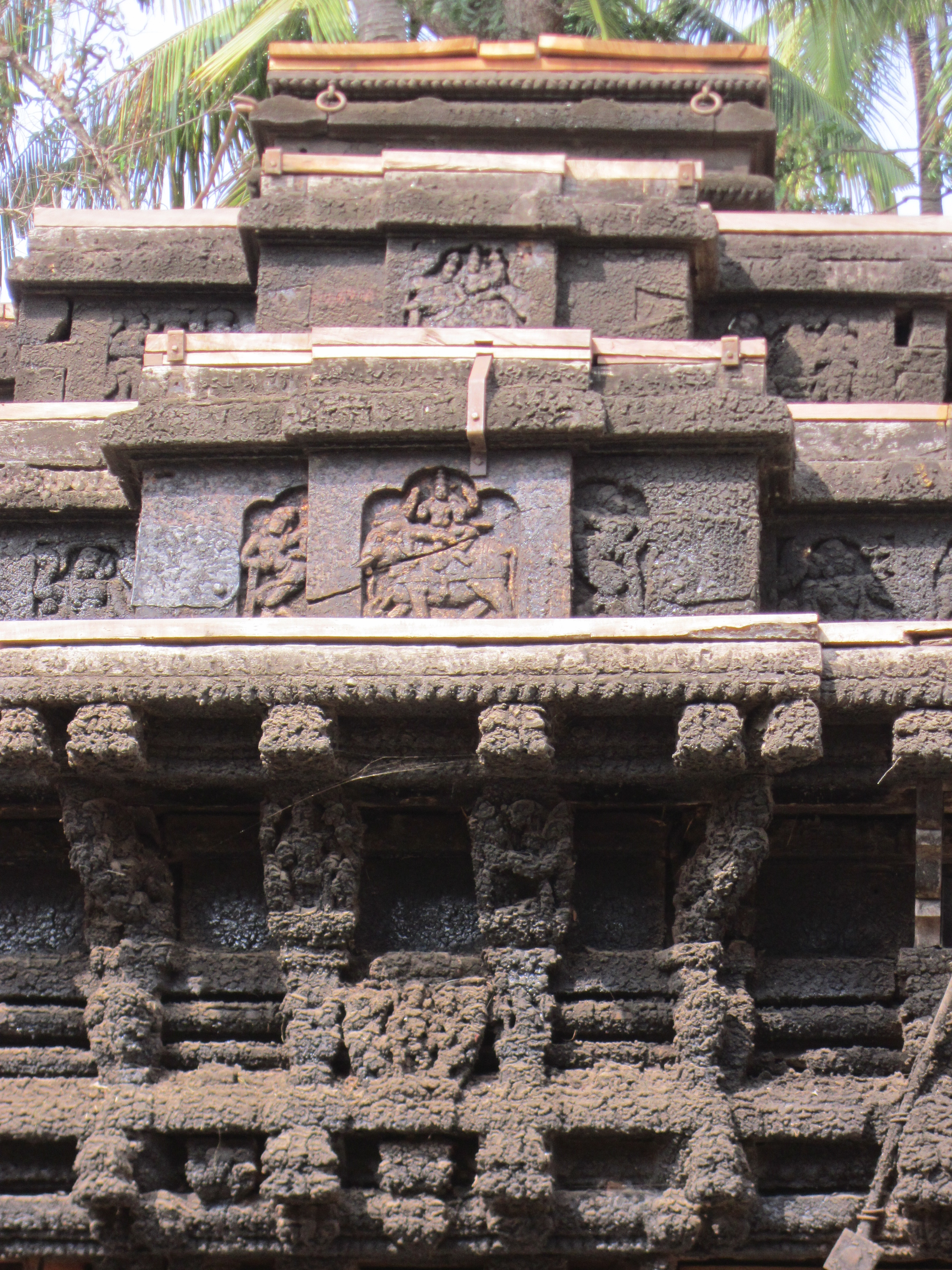 Lord Indra and Iravatam in Vandadum Pottal, Tenkasi, Tamilnadu